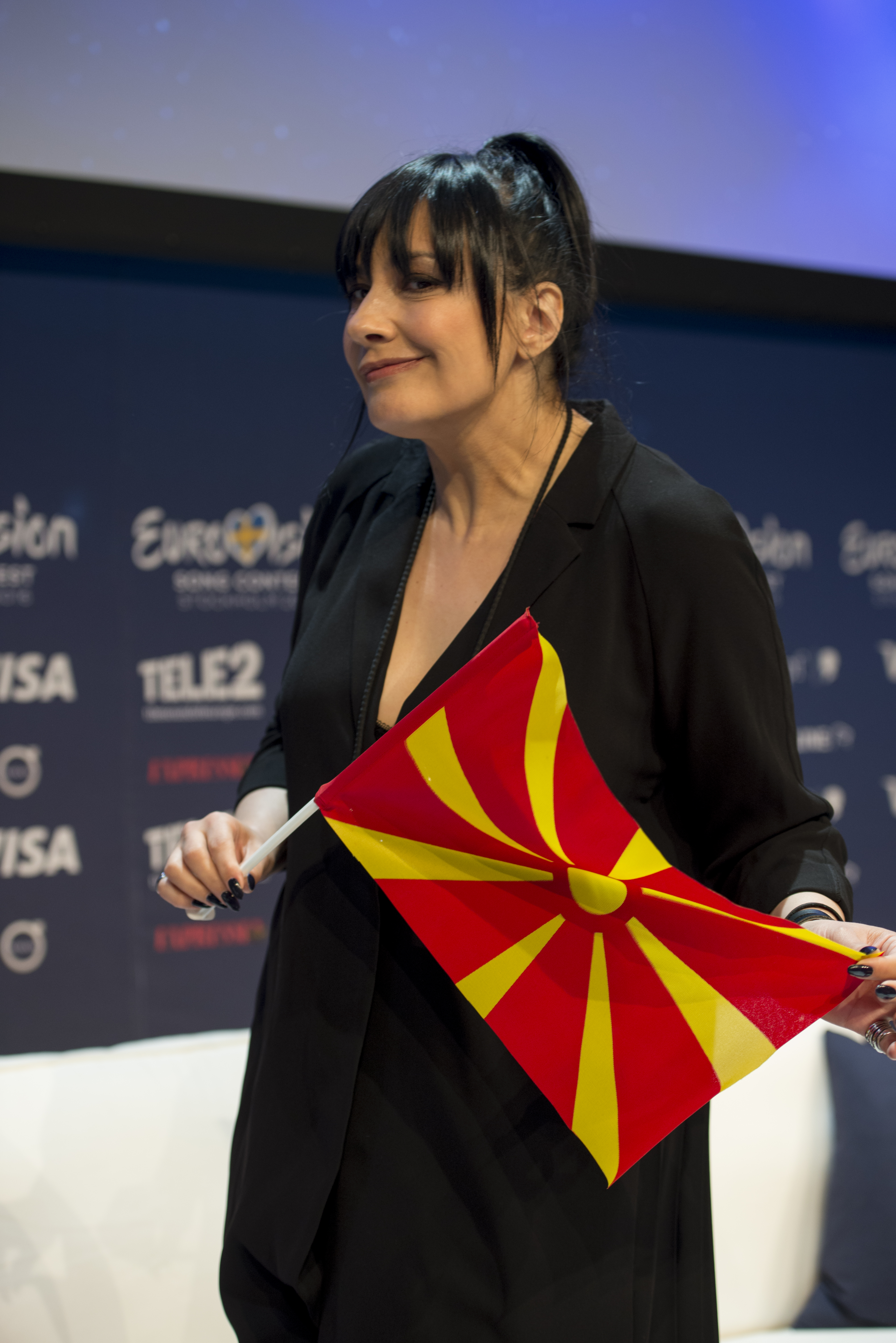 Kaliopi at a Meet & Greet during the Eurovision Song Contest 2016 Stockholm. (Help translate this text)